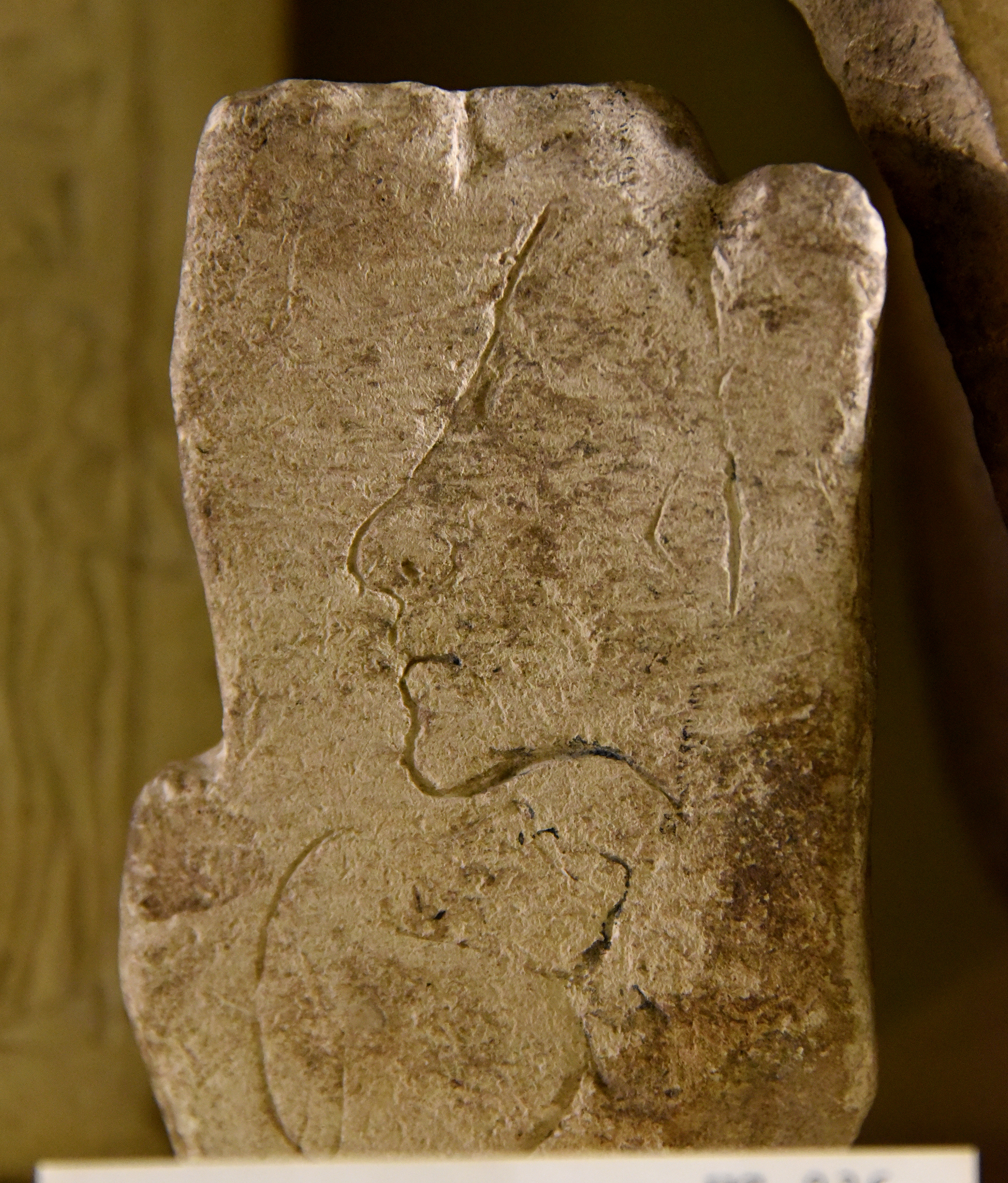 Limestone trial piece of a king, probably Akhenaten, and a smaller head of uncertain gender. From Amarna, Egypt. 18th Dynasty. The Petrie Museum of Egyptian Archaeology, London. With thanks to the Petrie Museum of Egyptian Archaeology, UCL.